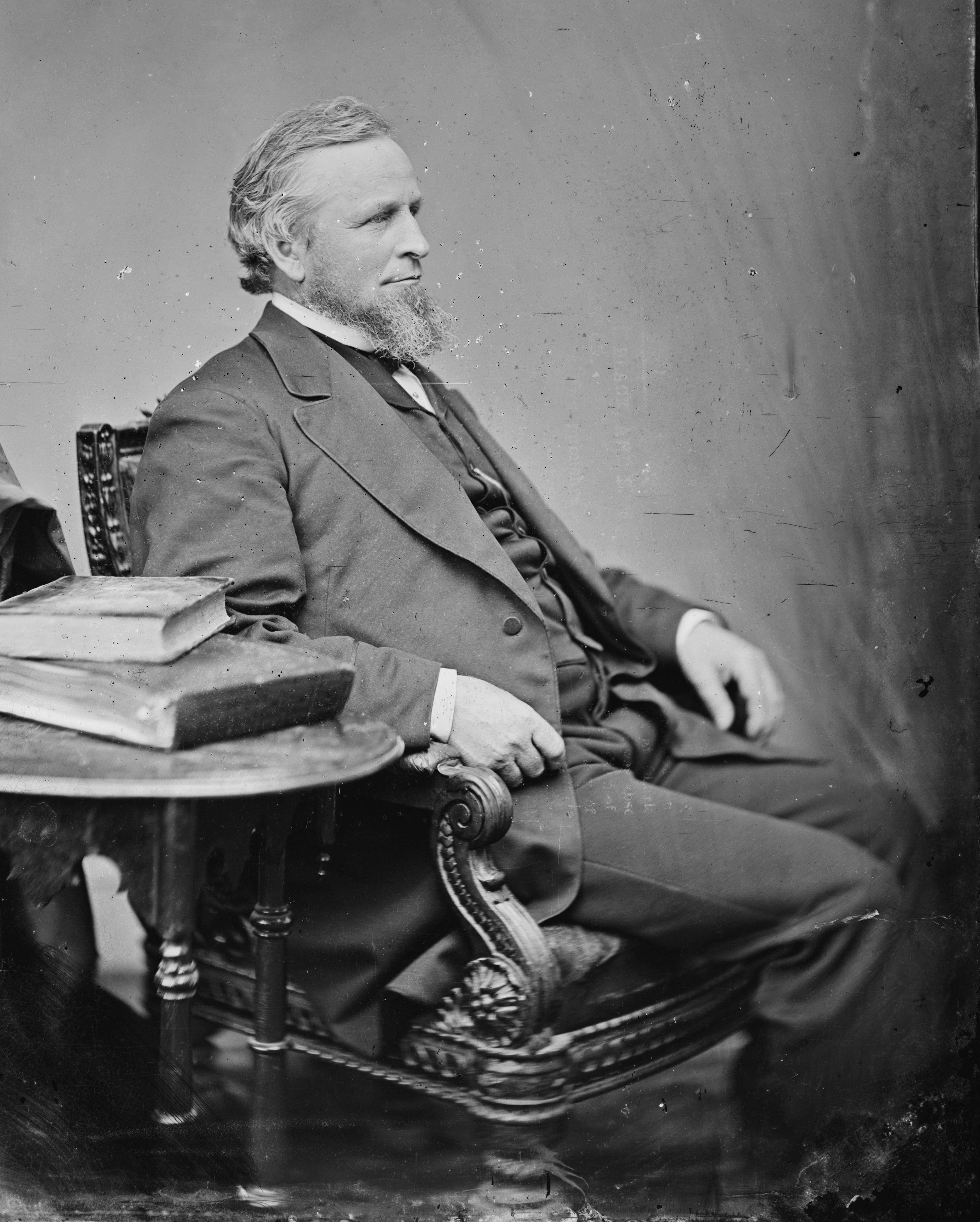 William B. Washburn. Library of Congress description: "Hon. [William Barrett] Washburn of Mass."